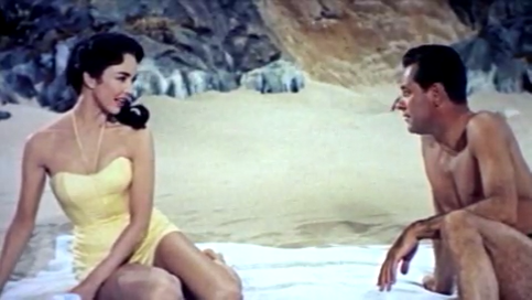 William Holden and Jennifer Jones in the film Love Is A Many Splendored Thing - Henry King 1955